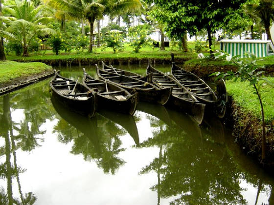 Picture taken at Kumarakam , by George Joseph ( July 2004). Equipment : Sony DSC-P7 Digital Camera